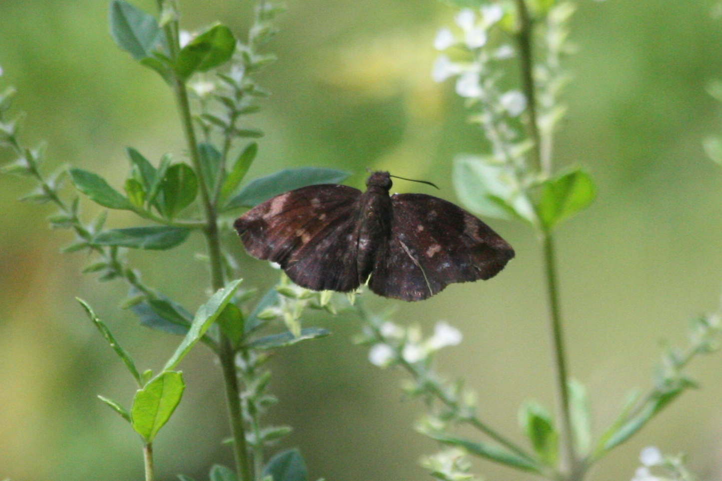 Possibly Achlyodes mithridates tamenundDescription from Flickr: "Sickle-winged skipper (Achlyodes thraso) male. Also classified as Eantis tamenund."